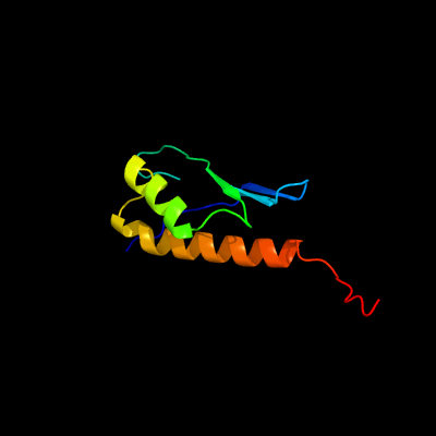 phyre 2 model of c2orf81 protein